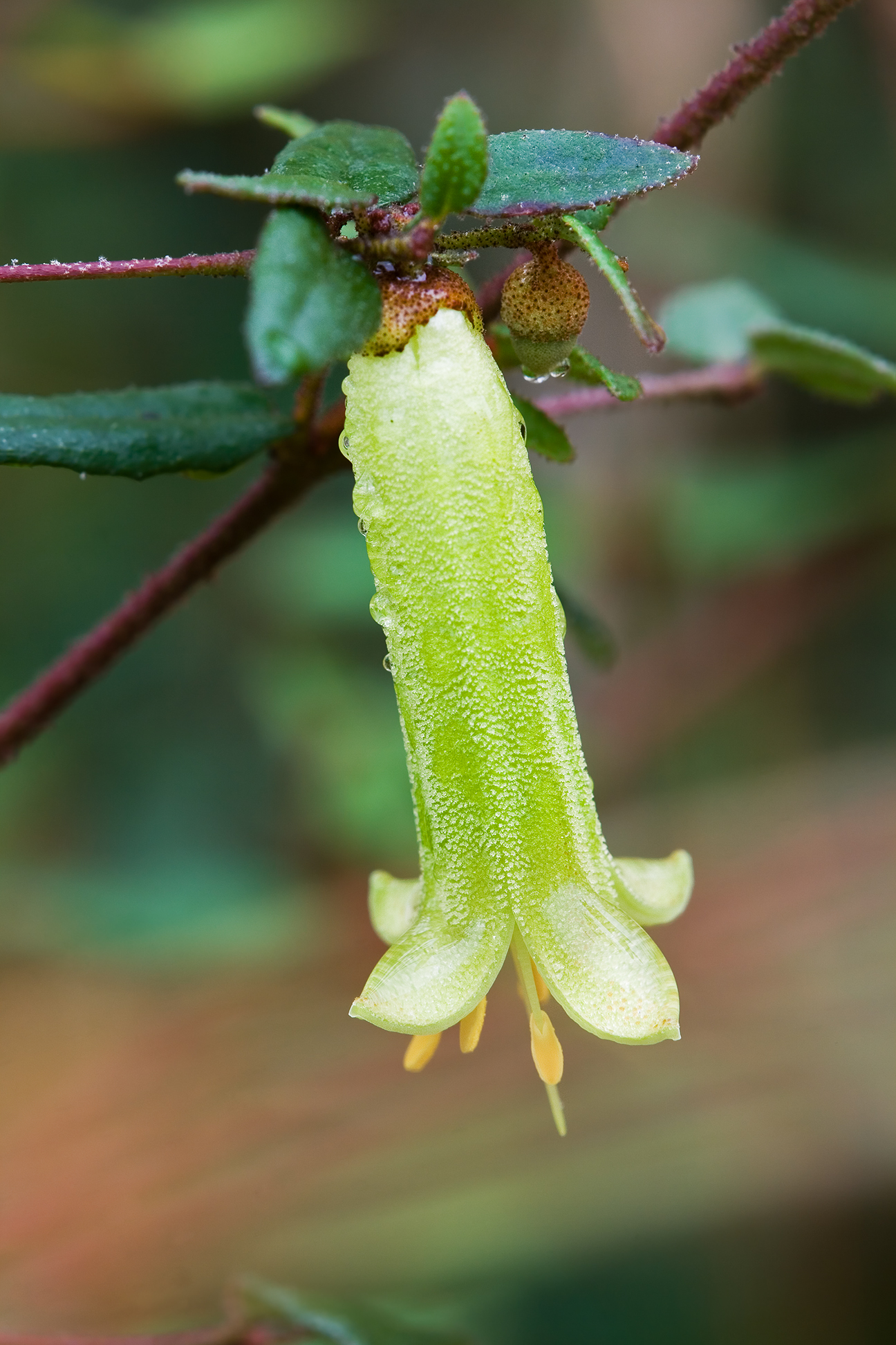 Correa reflexa, Royal Tasmanian Botanical Gardens, Tasmania, Australia Camera data Camera Canon EOS 400D Lens Tamron EF 180mm f3.5 1:1 Macro Focal length 180 mm Aperture f/8exp=1/10 Exposure time {exp } s Sensivity ISO 100